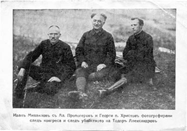 Ivan Mihajlov, gen. Protogerov, Georgi p.Hristov